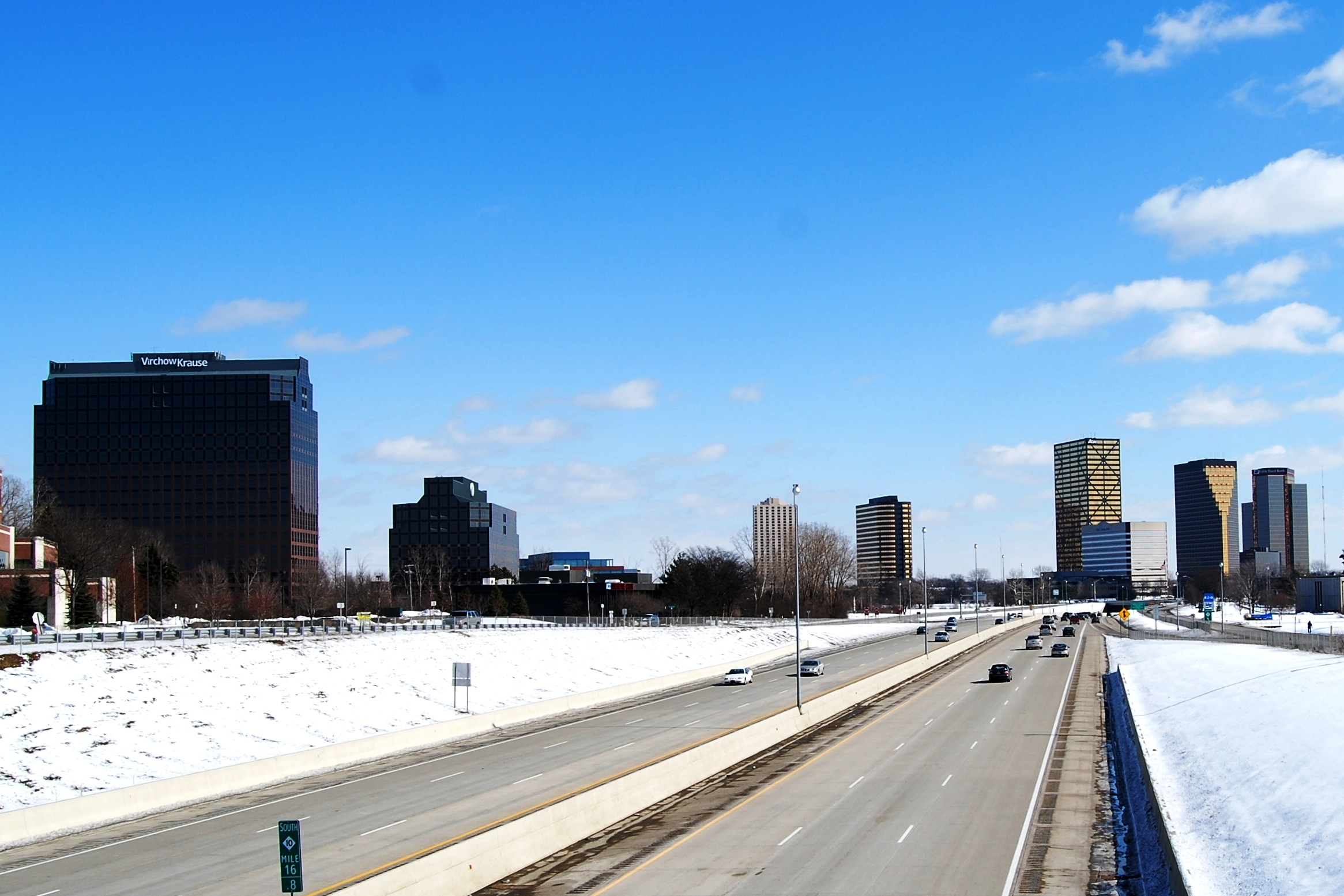 Southfield Michigan, skyline from the Lodge